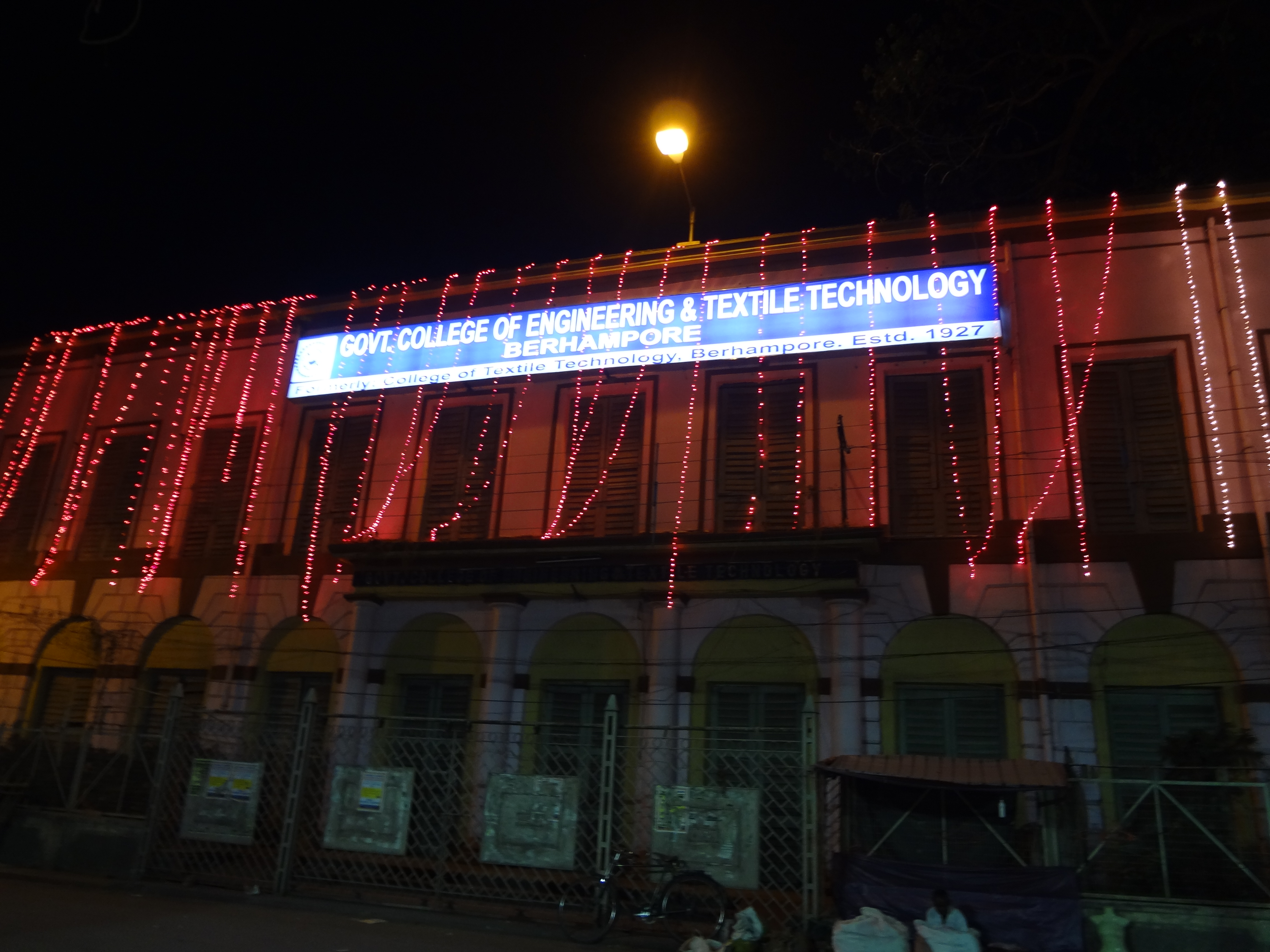 annual festival